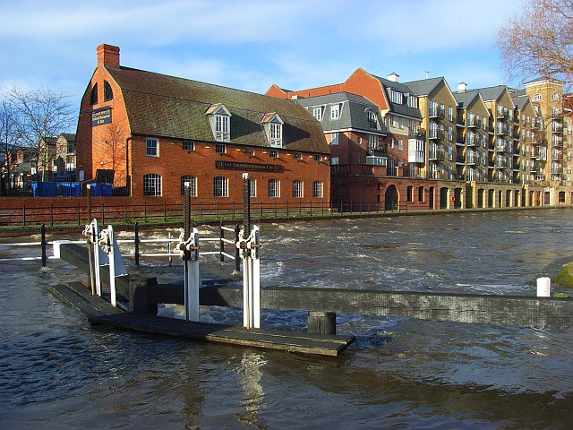 County Lock and Weir, on the River Kennet in Reading, England. The river is in a state of flood, and the lower lock gates seen here have been overtopped. The attractive brick building in the background is the former stable block of Simonds' Brewery, now a Loch Fyne restaurant. For more information see the Wikipedia article County Lock.